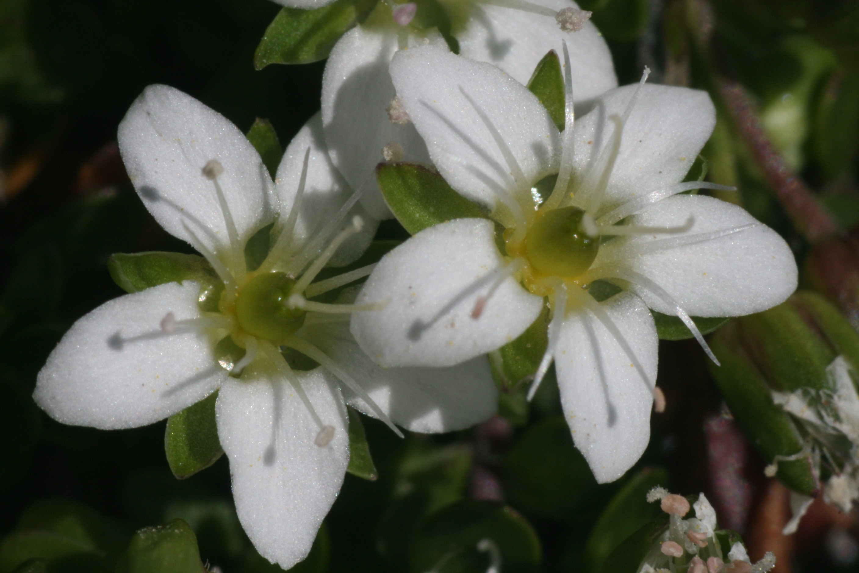 Arenaria biflora